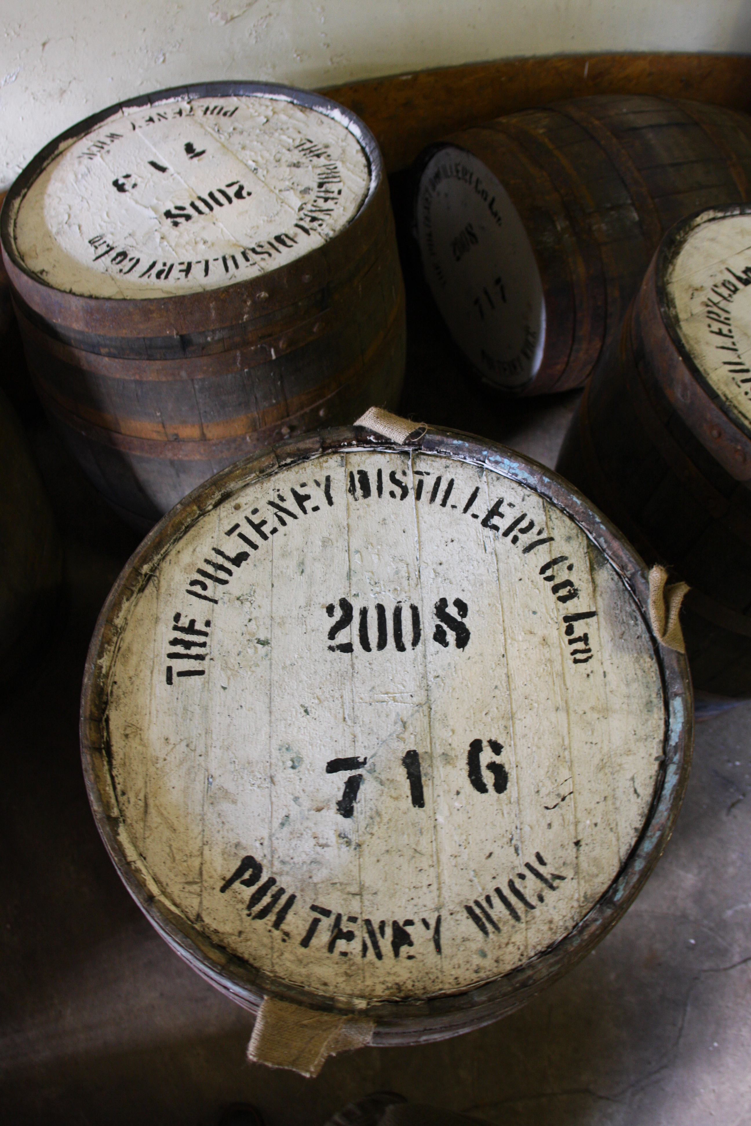 Old Pulteney Barrels, A little free time at the local distiller...